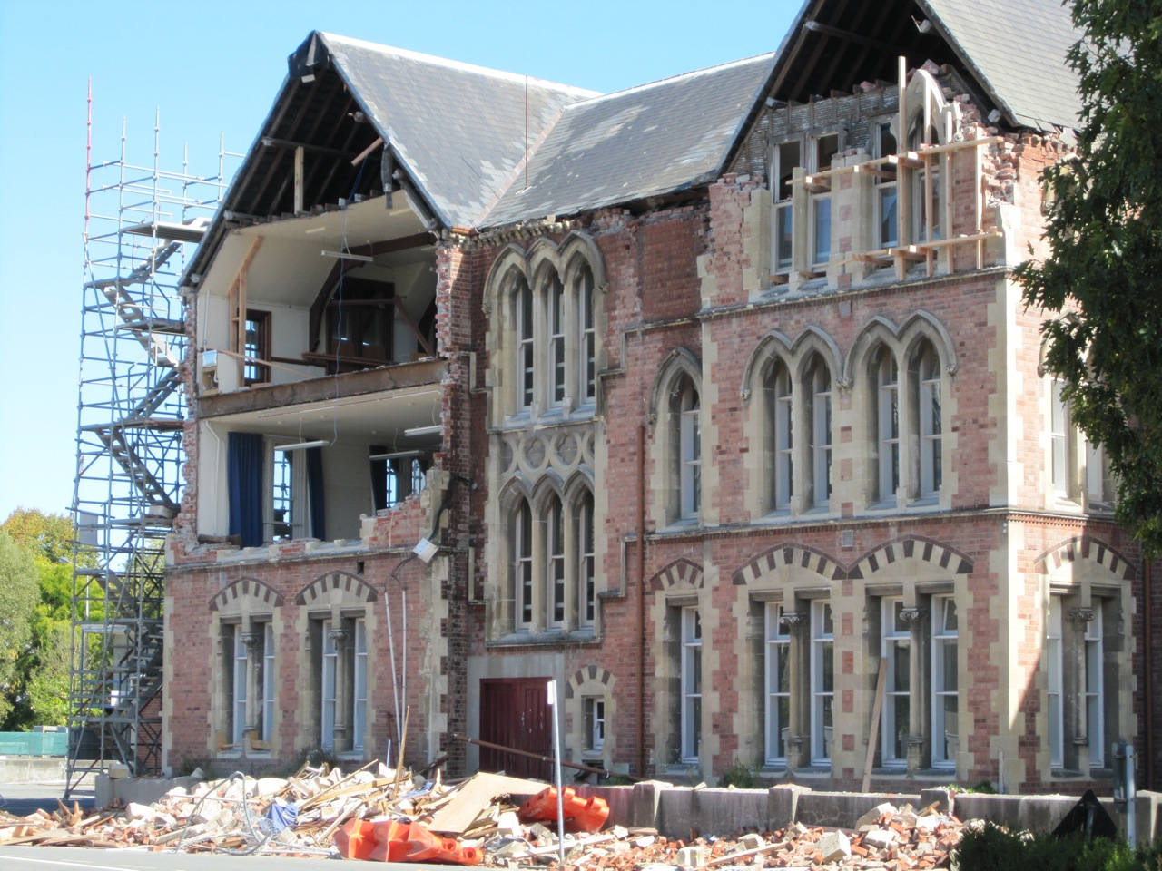 Cranmer Centre after the 2011 Christchurch earthquake.